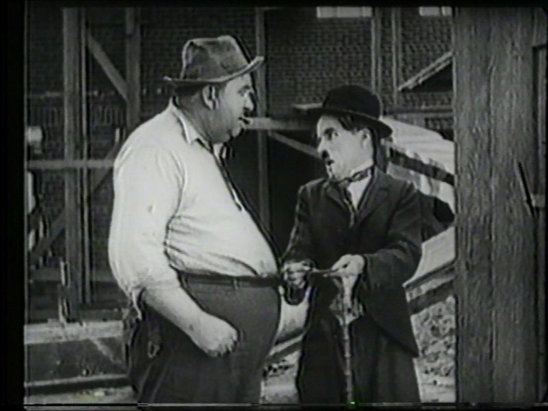 Charlie Chaplin and Mack Swain from "Pay Day".